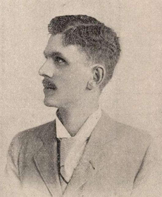 Chessmaster Geza Maroczy (1895)